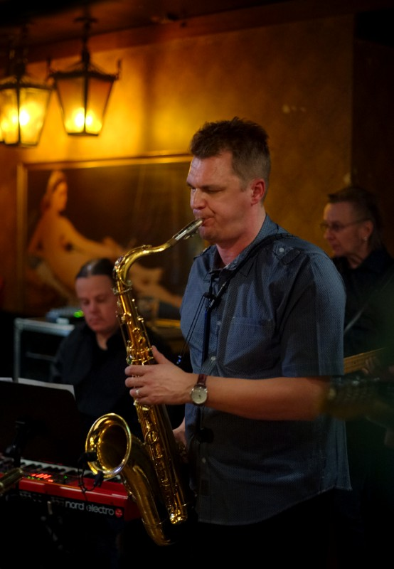 Esa Niiva on December 10th 2011 at Lappeenranta, Finland